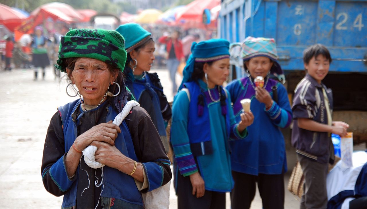 Hani minority ladies at Laomeng Market, near Yuanyang, Yunnan province, China